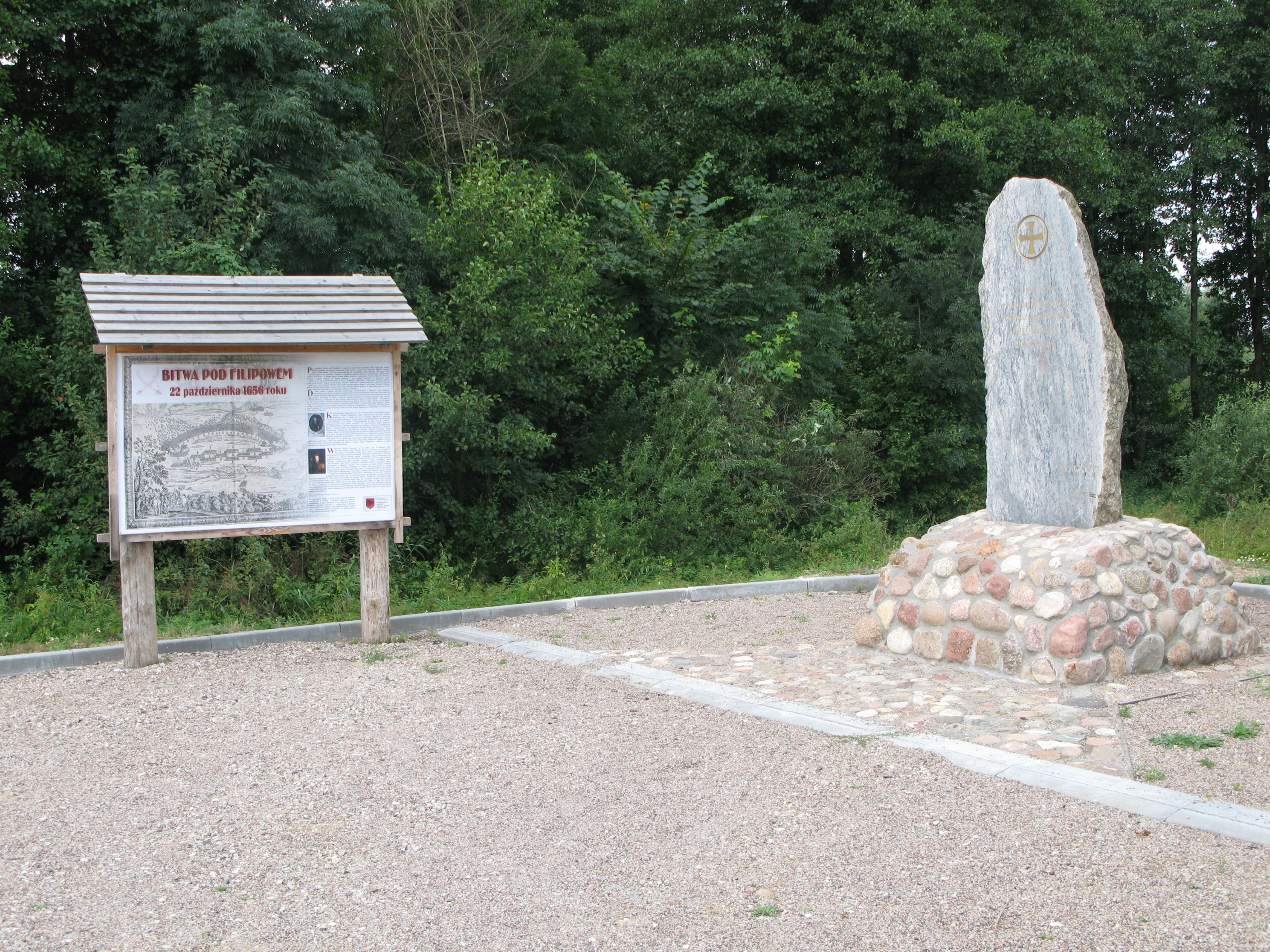 Monument of the Battle of Filipow, Suwalki region, Poland.